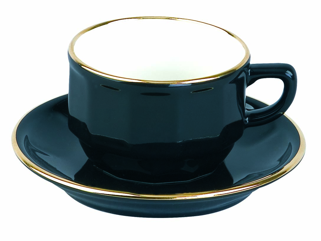 Flora Tea cup & saucer, a Parisian classic for a 100 years by Apilco